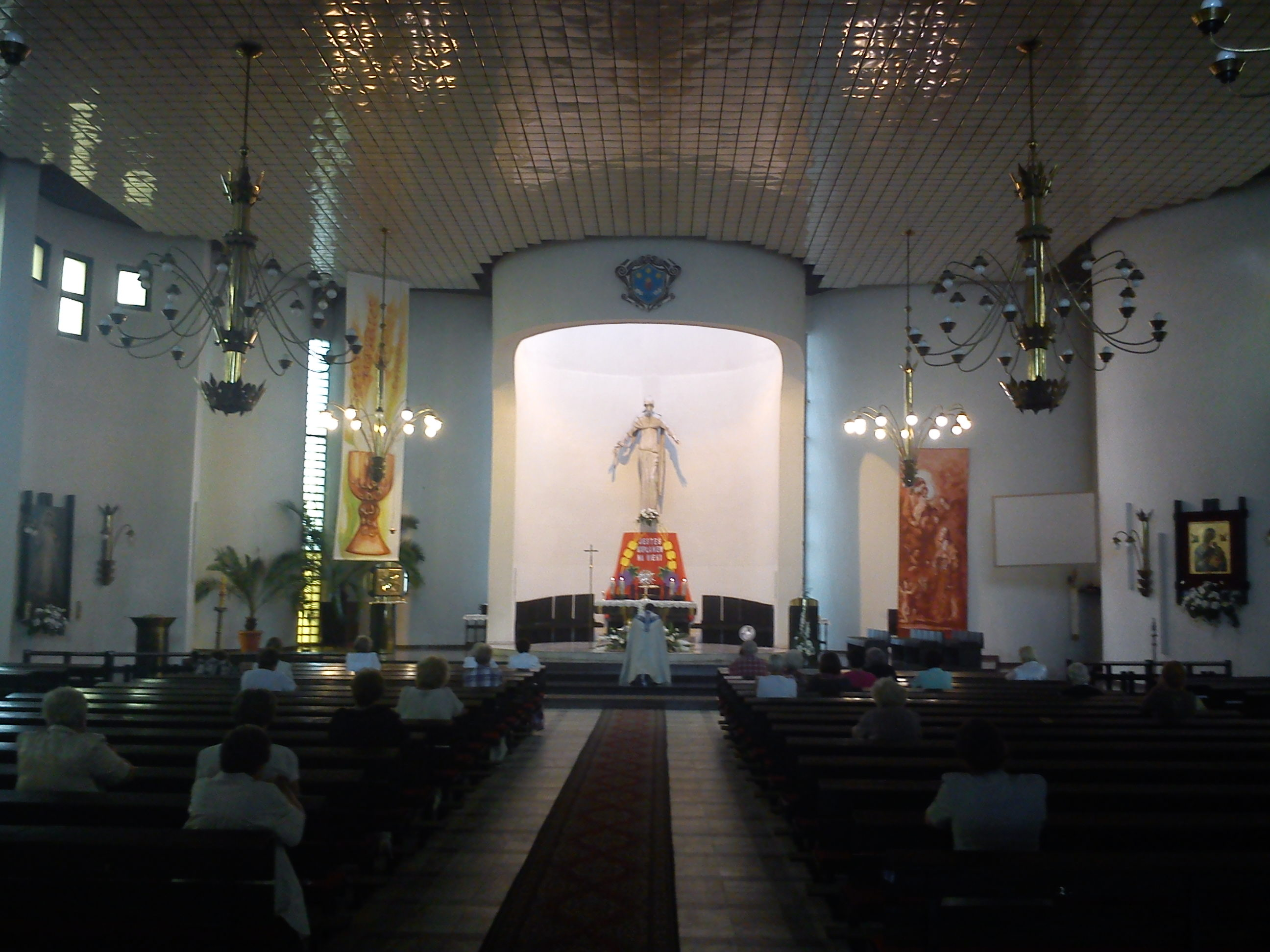 Church, Poznan, Kollataja Street.